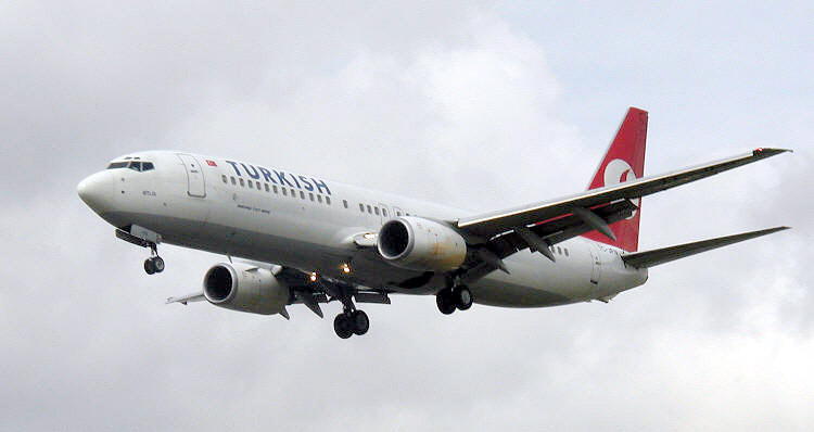 Turkish Airlines Boeing 737-800 (TC-JFN) on the approach to London (Heathrow) Airport